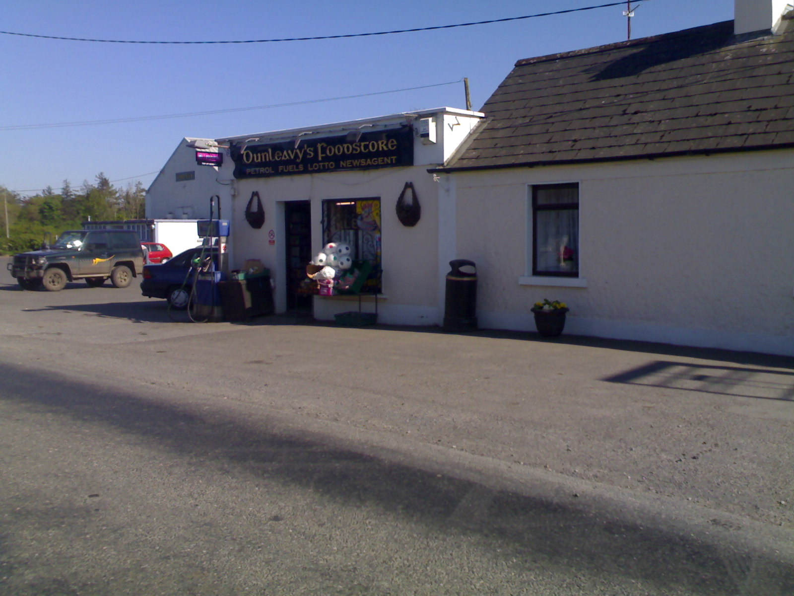 Coole_Grocery_store.jpg Camera Phone Own work Peter Gavigan May 2007